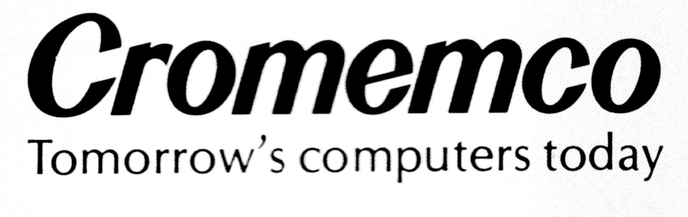 Cromemco logo in 1983